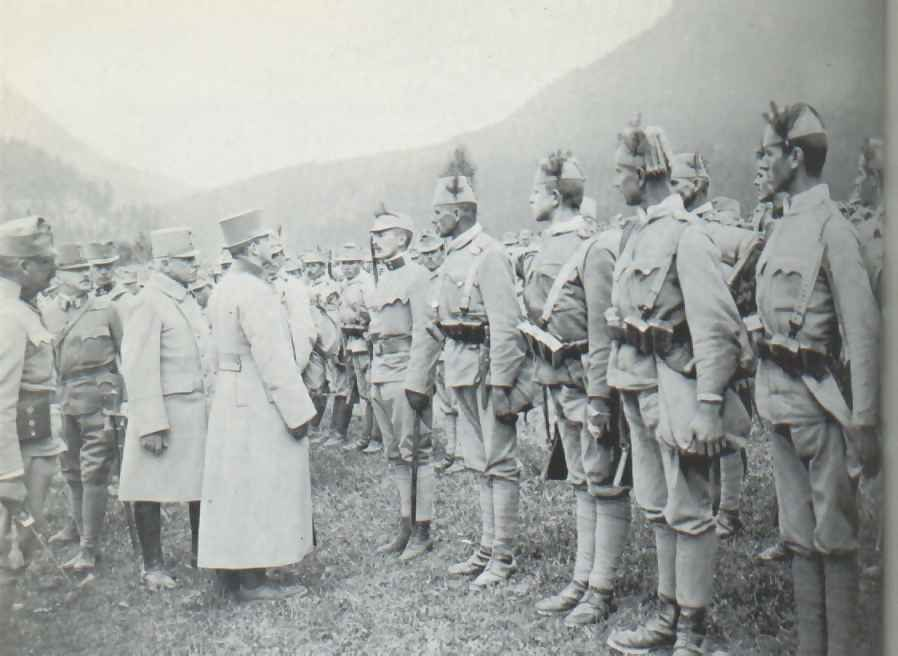 Bosnian troops of A.U Bosniak regimets on Isonzo front in Italy in 1915 with last emperor of Austria Charles I.